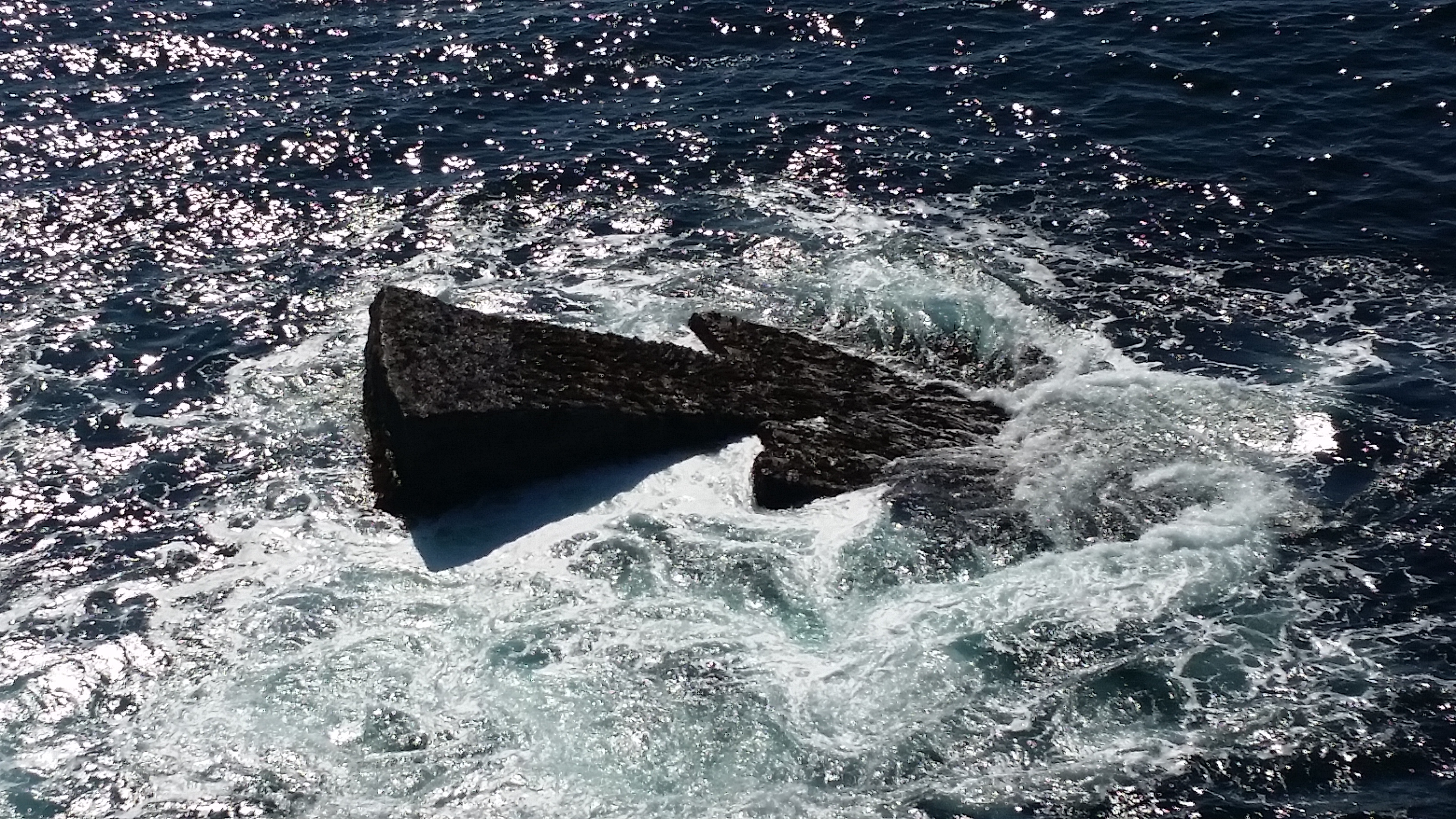 Yesnaby.